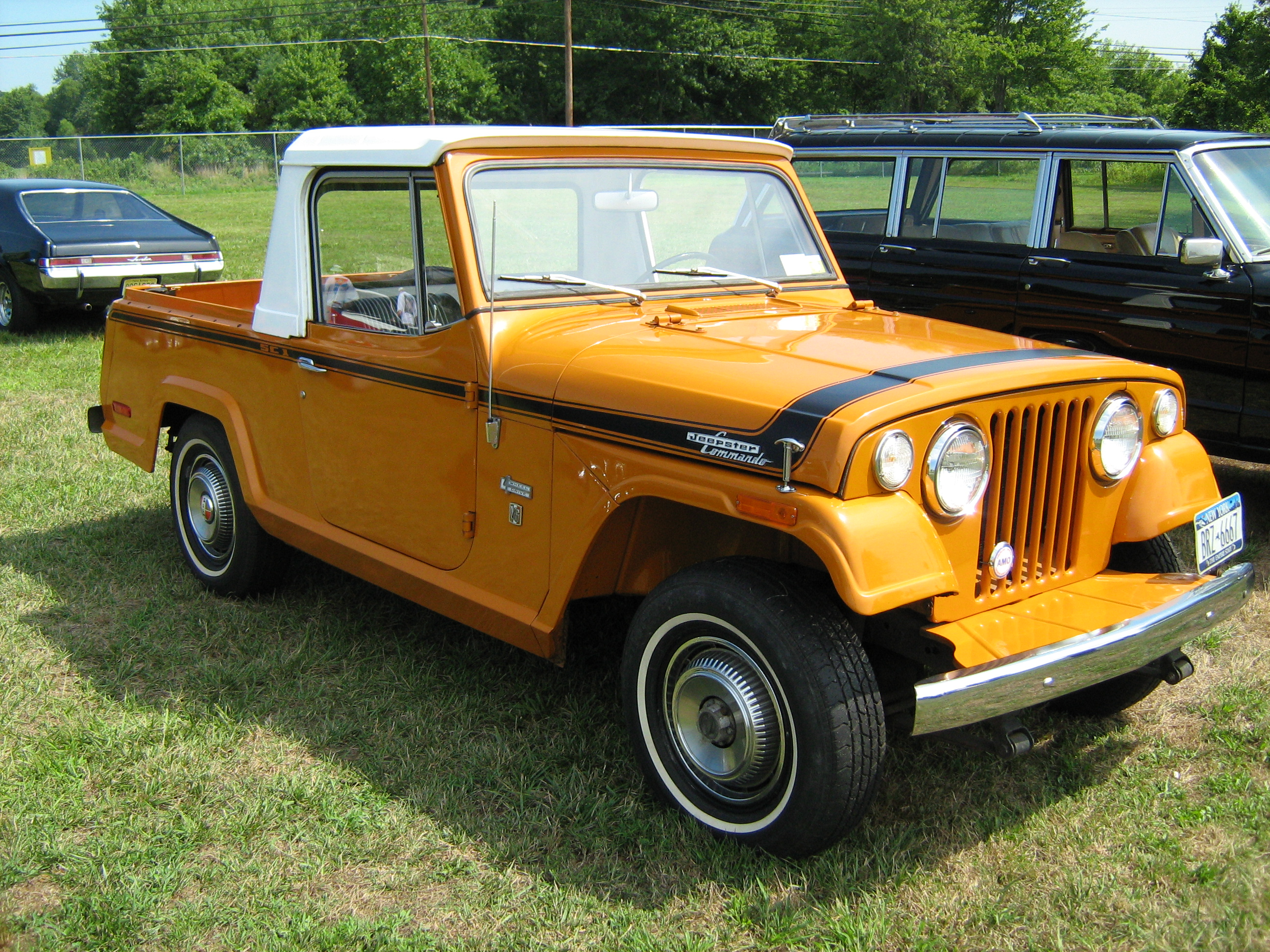 1971 Jeepster Commando pick up truck in the sporty SC-1 trim version. A four-wheel-drive with V6 engine and automatic transmission on the center floor console. Picture taken at the AMC day at the Cecil County Dragstrip in Maryland.